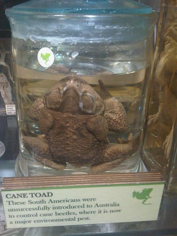 Cane Toad (Rhinella marina - syn: Bufo marinus) at the Grant Museum of Zoology in London, England.